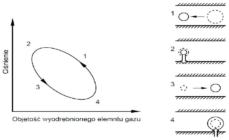 cycle